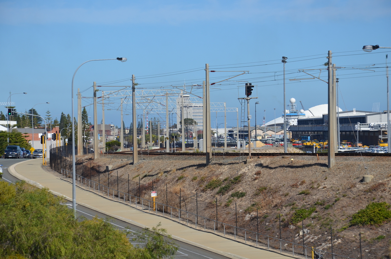 Fremantle railway line at southern side of rail bridge towards Fremantle railway station